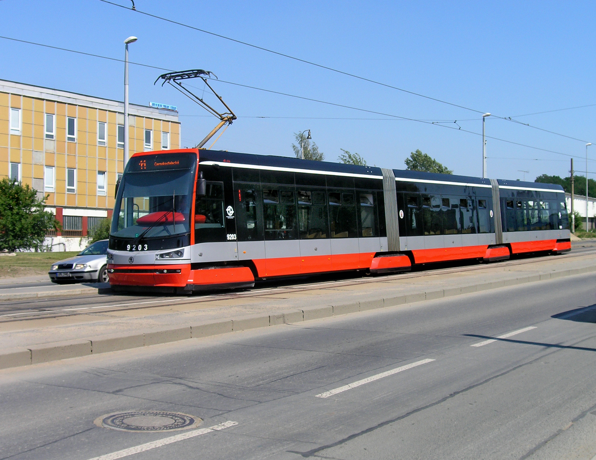 Škoda 15T tram at Teplárna Michle stop, Prague